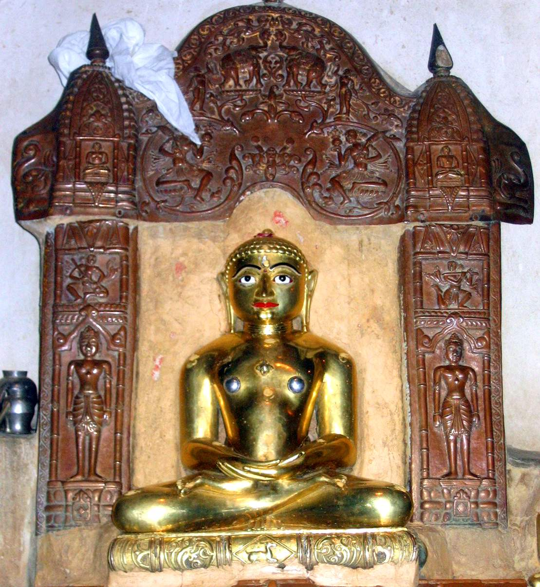 Photograph of Lord Santinatha, 16th Jain Tirthankara, taken by Jules Jain, Location Amarsagar/ Lodhruva, Rajasthan